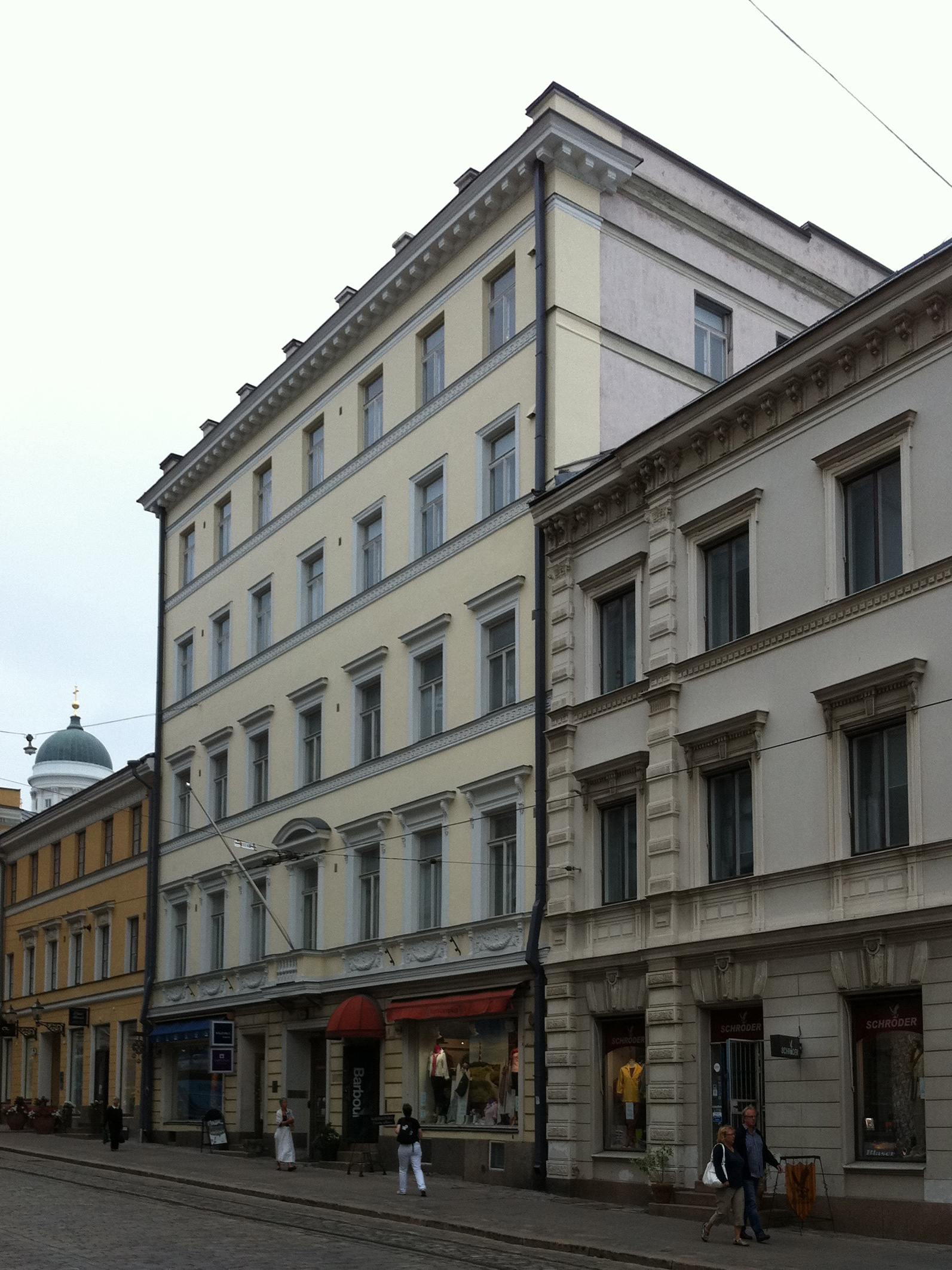 Fennia-Patria House, Unioninkatu 25, built 1817-1818 (first and second floor). Heightened to five floors in 1926 by Jung & Jung architects.